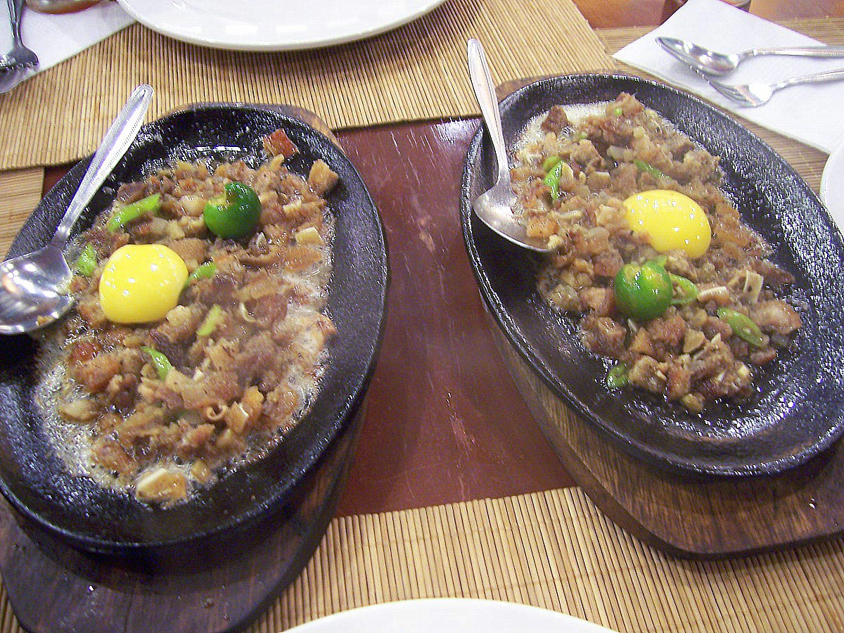 Helen's favorite. We had to order an extra (three orders for the four of us!).